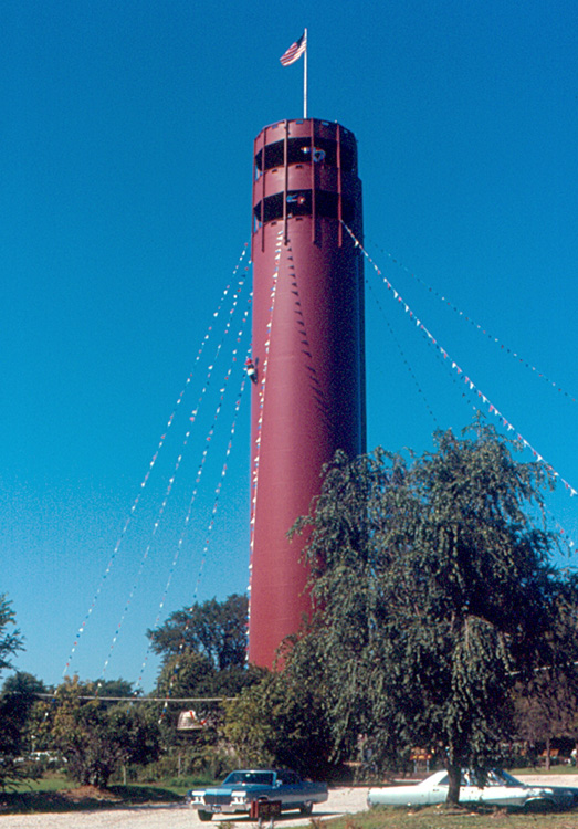 The water tower in Tower Park, Peoria Heights. It is about 200 ft (60 m) high. You can ride an elevator to the observation deck. That is a sculpture of a woodpecker a little over halfway to the top.